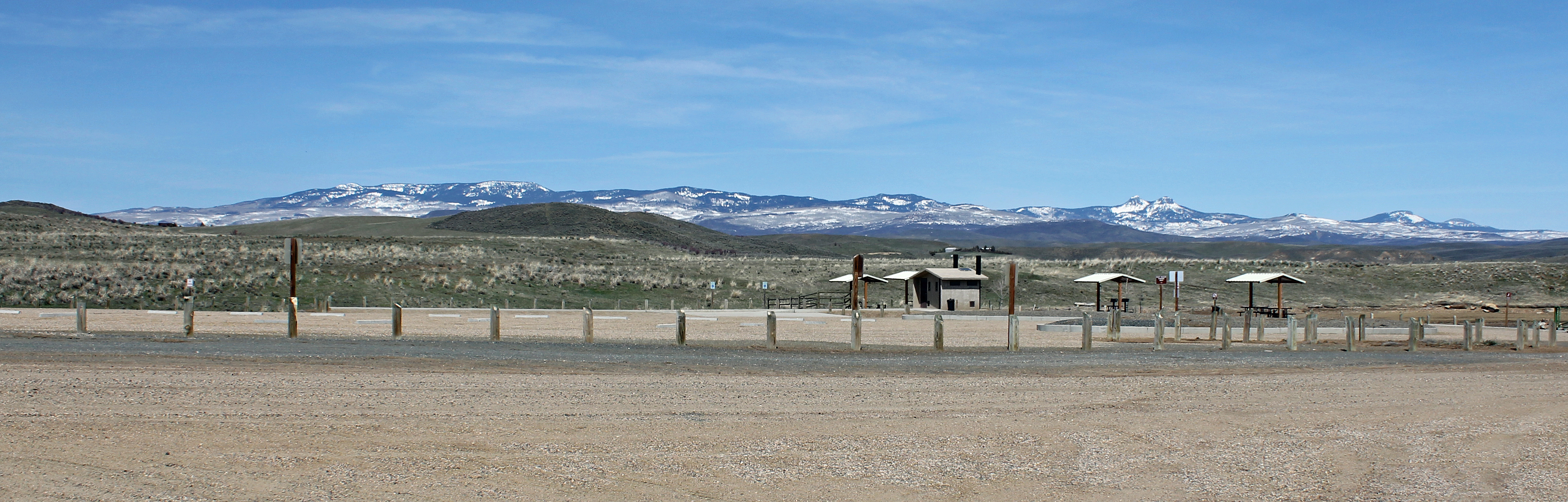 The Elkhead Mountains in Moffat County, Colorado. The view is to the north from near the shore on the west side of Elkhead Reservoir.